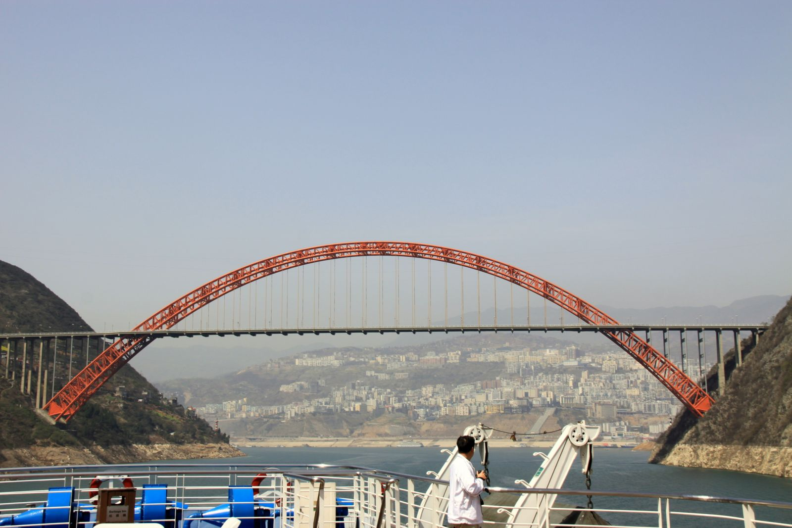 The Wushan Bridge in Chongqing Municipality in China